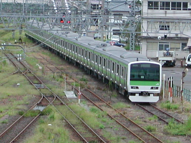 Niitsu Station in Niigata Prefecture